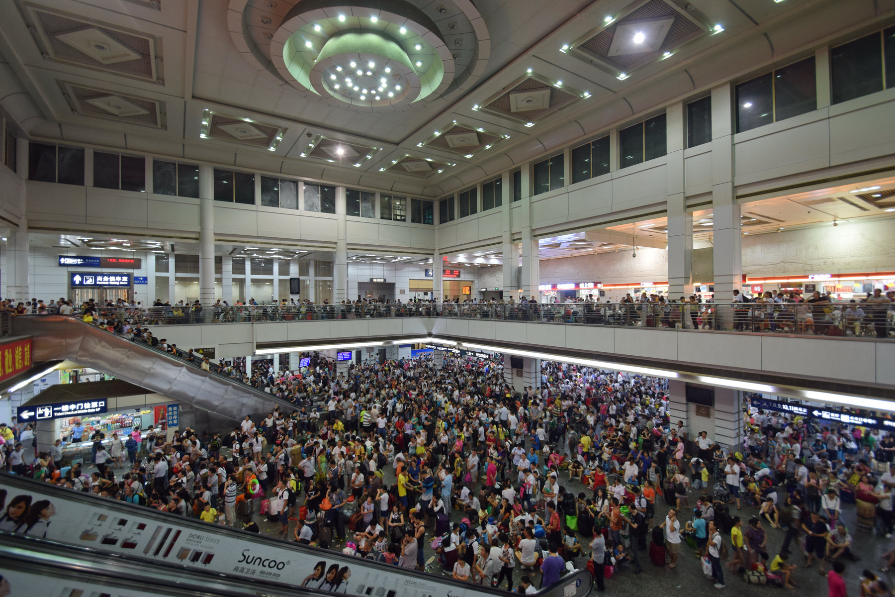 Crowded grand concourse, Guangzhou Railway Station